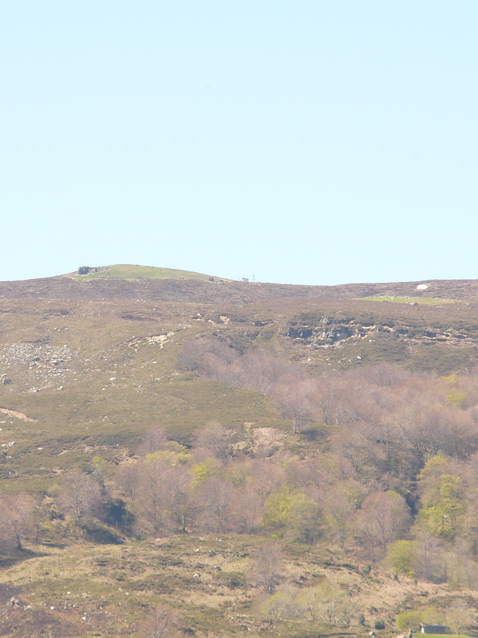 Northeast side of Miyaju Altu / Mediajo Frío from Luena (Cantabria)